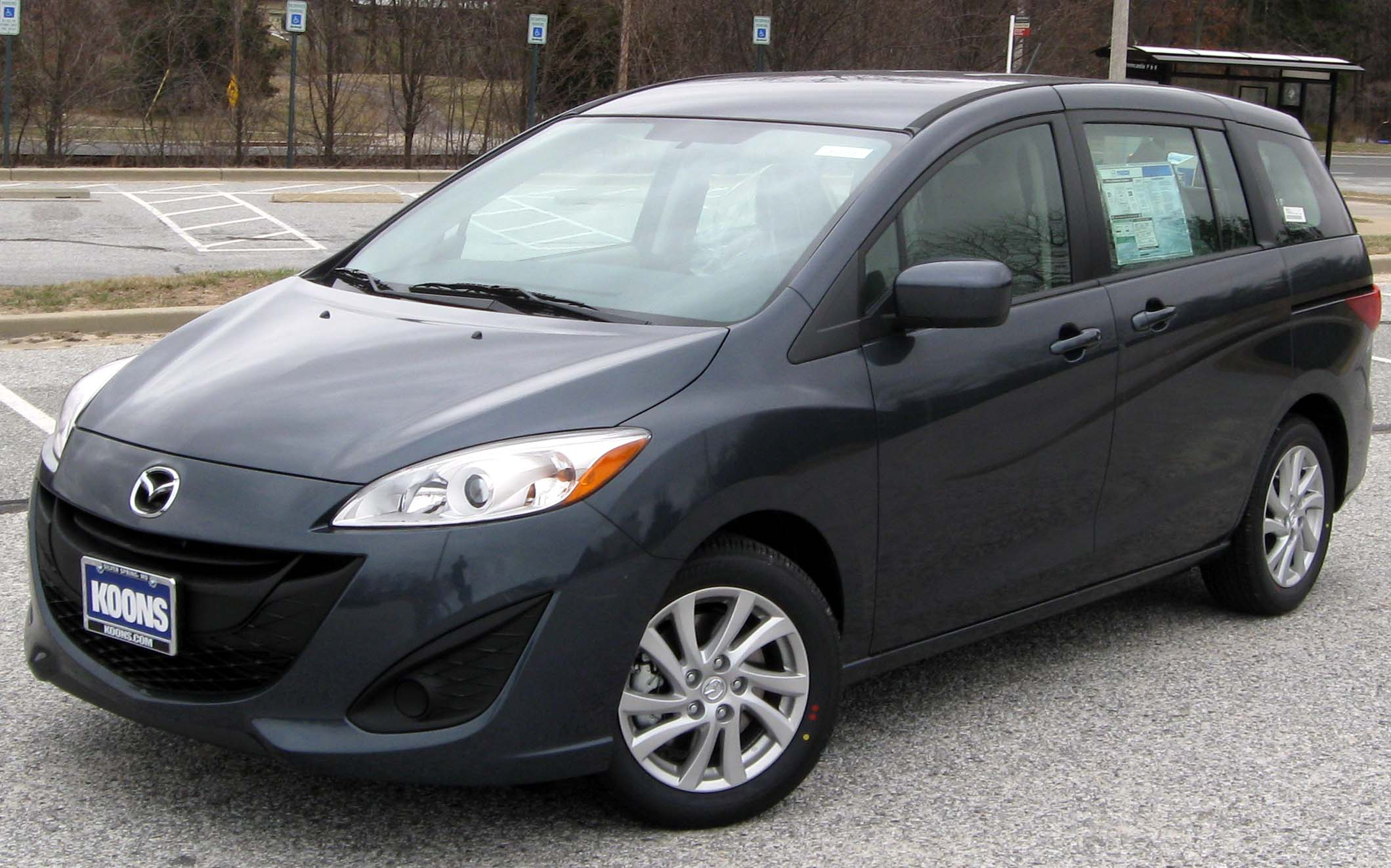 2012 Mazda5 photographed in Silver Spring, Maryland, USA.